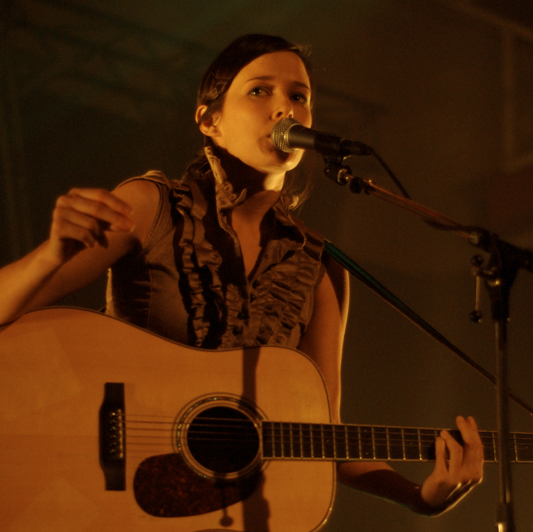 Meiko at the Transmission Showcase festival